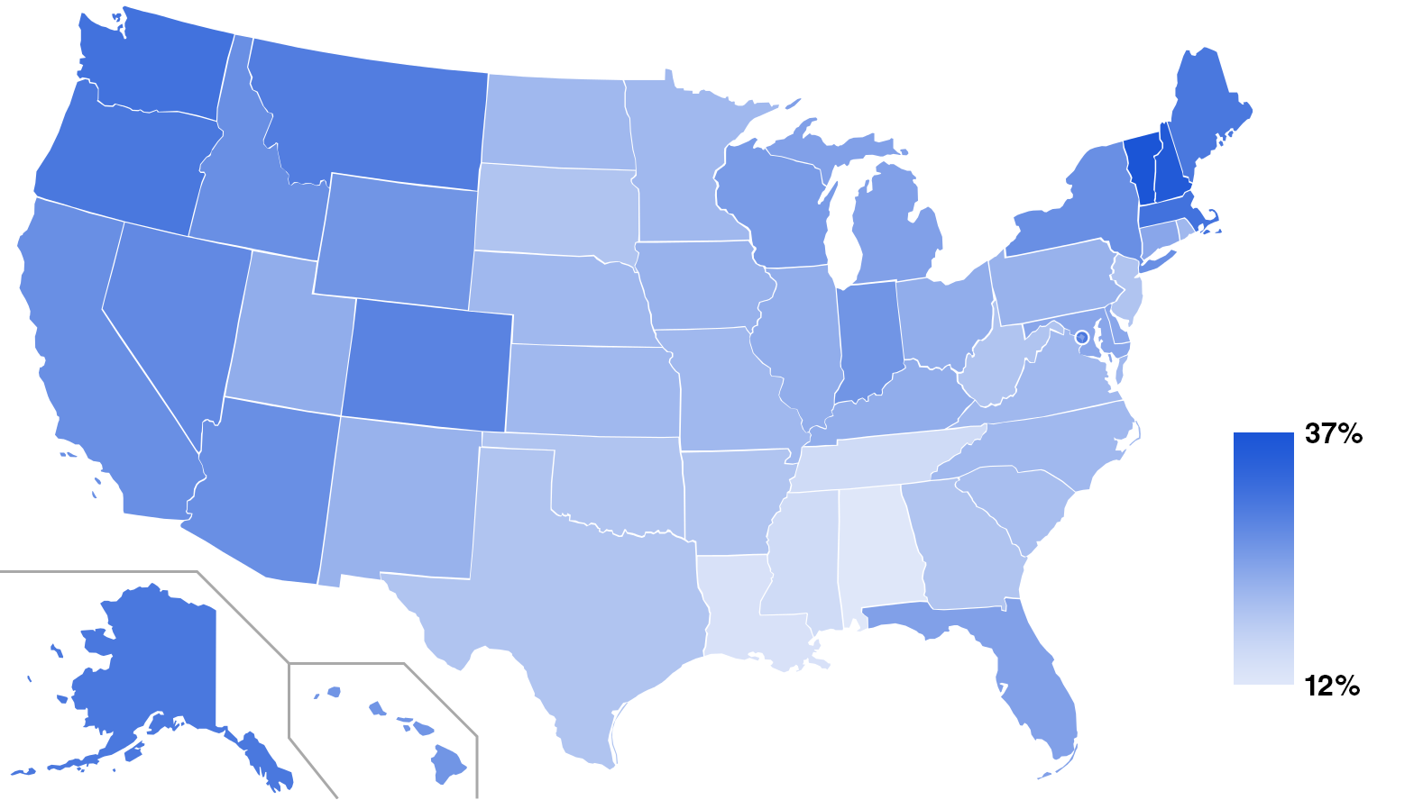 Percentage of population that has no religious affiliation ("Nones") by US state.